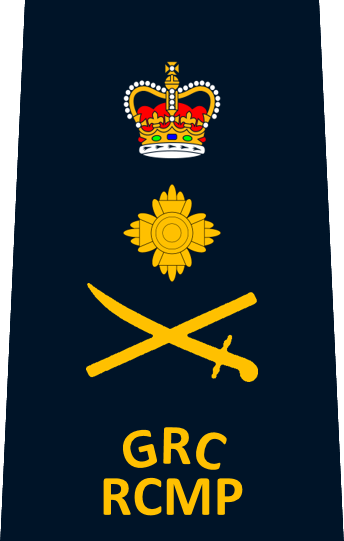 RCMP/GRC Rank Epaulet - Commissioner